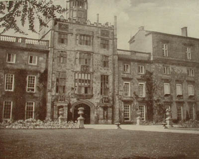 Wilton House, England 1908.